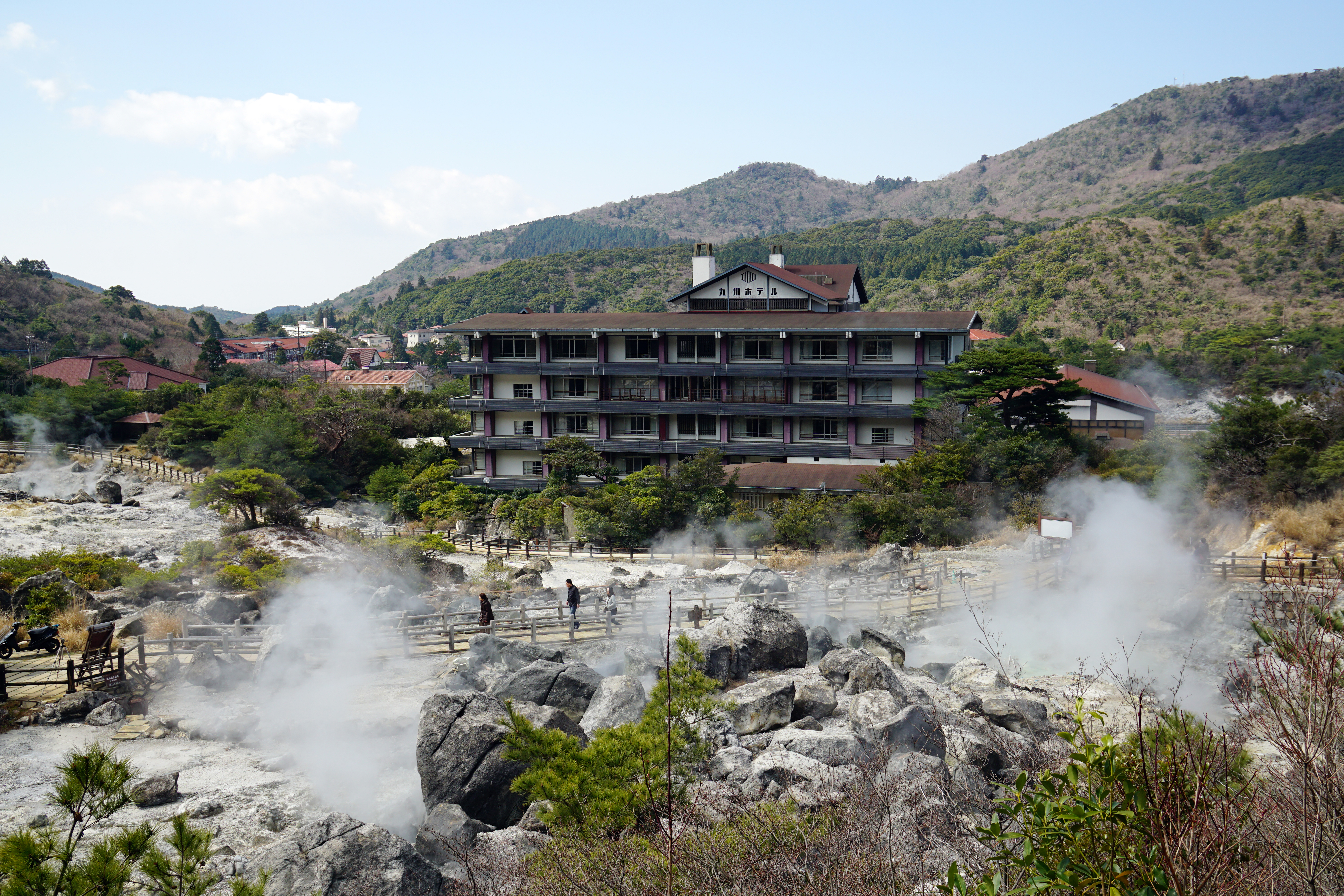 Jigoku of Unzen Onsen in Unzen City, Nagasaki prefecture, Japan.